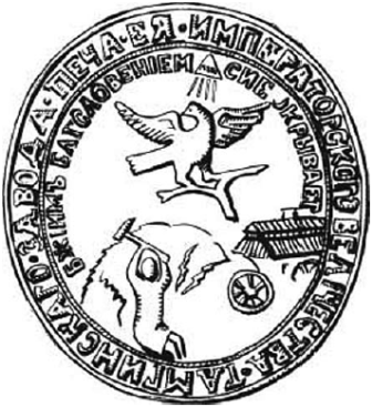 Tamginsky Plant’s Seal